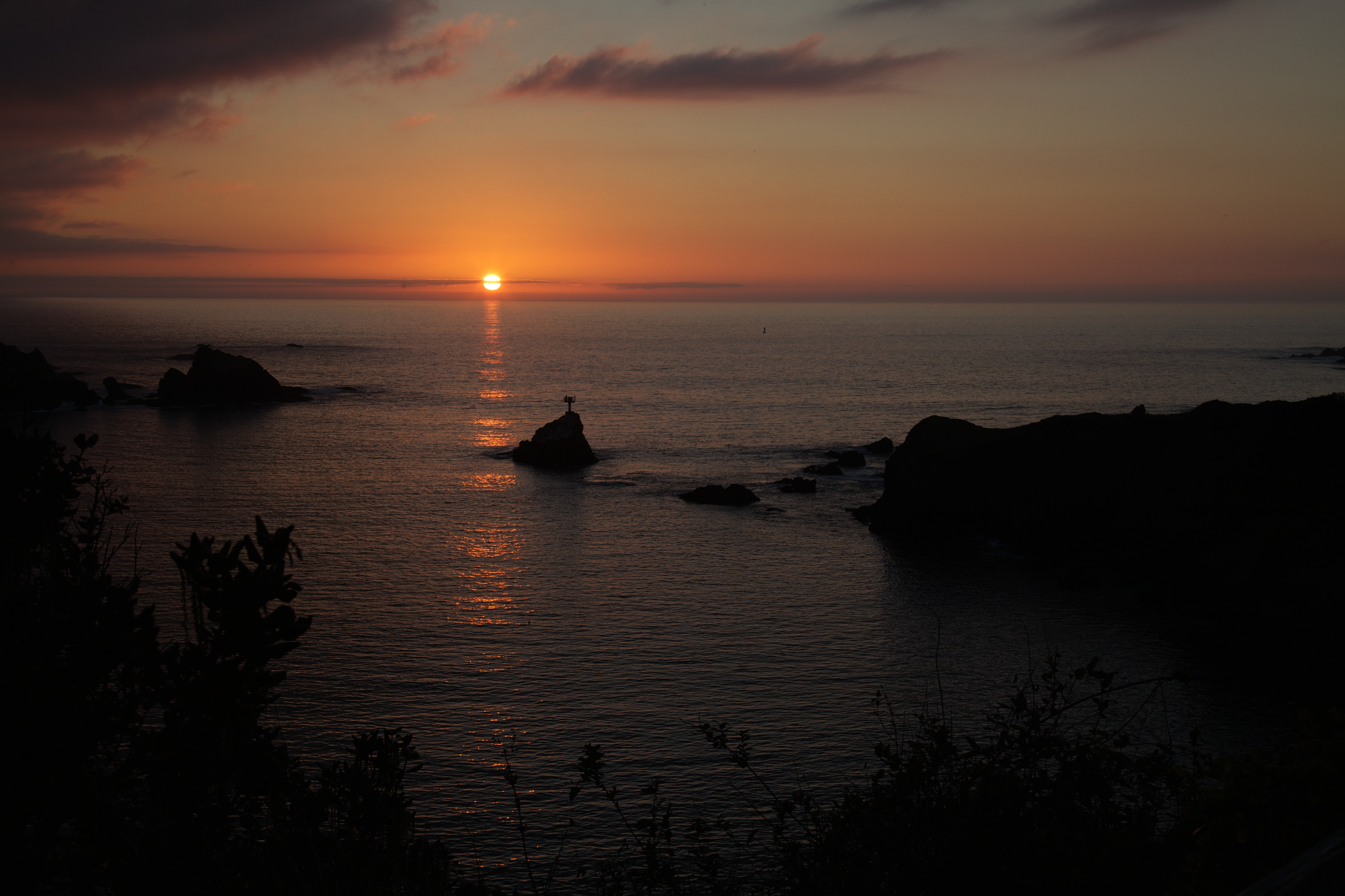 Sunset from the Albion River Inn, Albion, California. Taken by David Brossard.